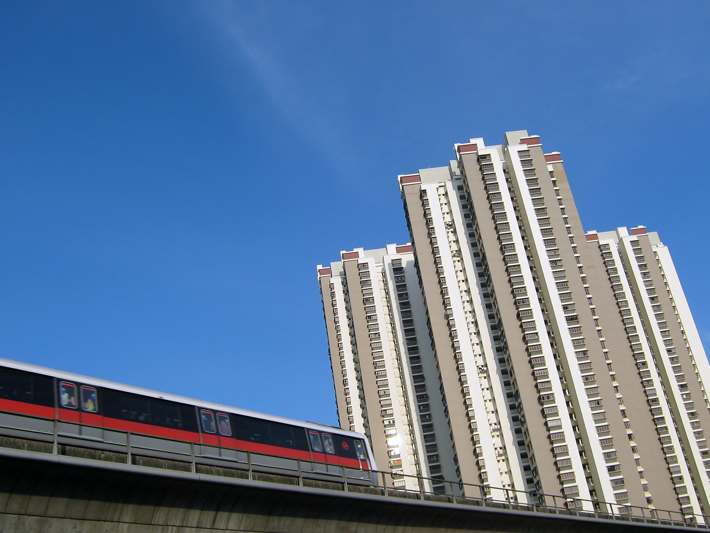 Housing and Development Board flats and an MRT line near the junction of Commonwealth Avenue and Queensway in Commonwealth, Singapore.